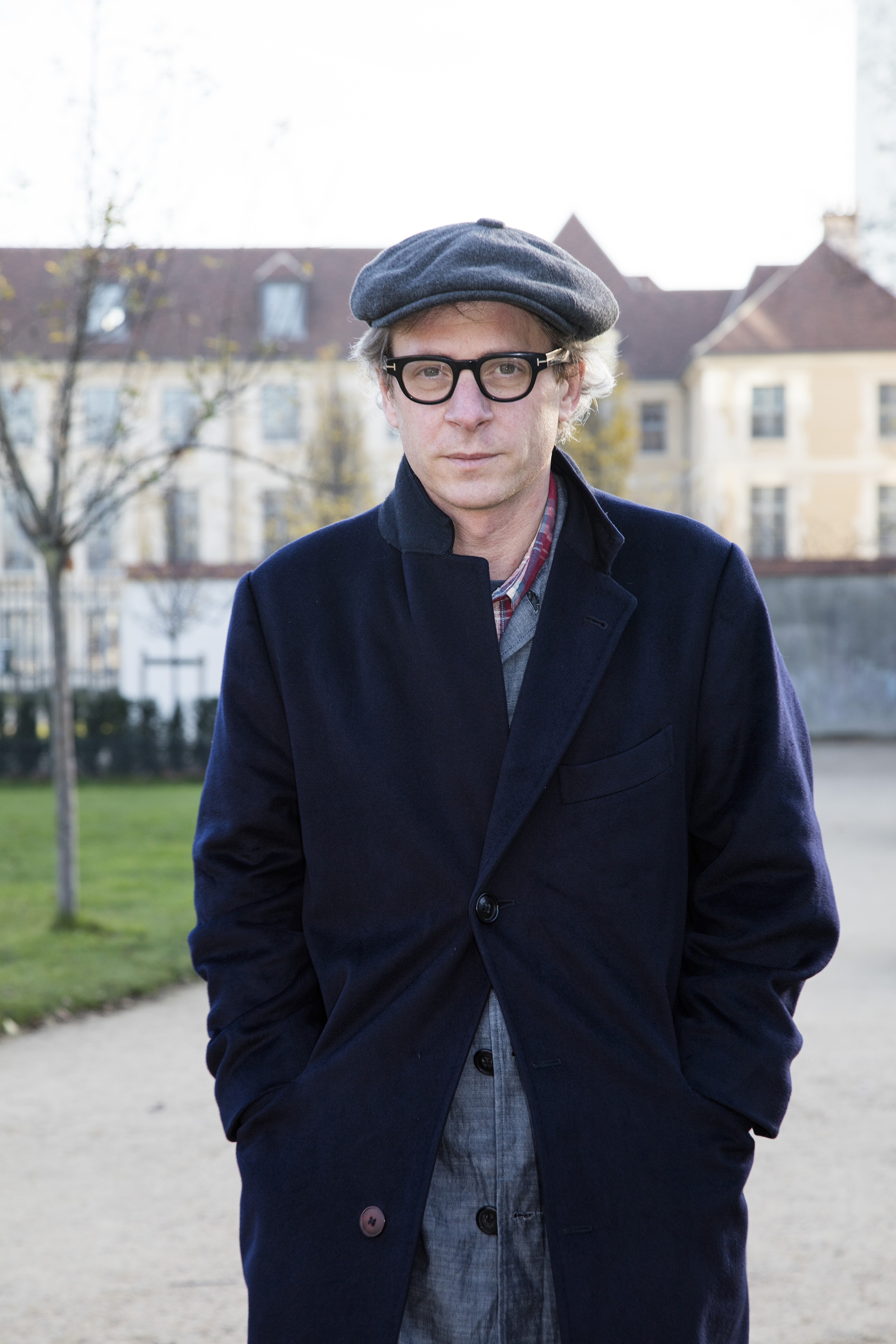 Camille de Toledo - Paris - 2017